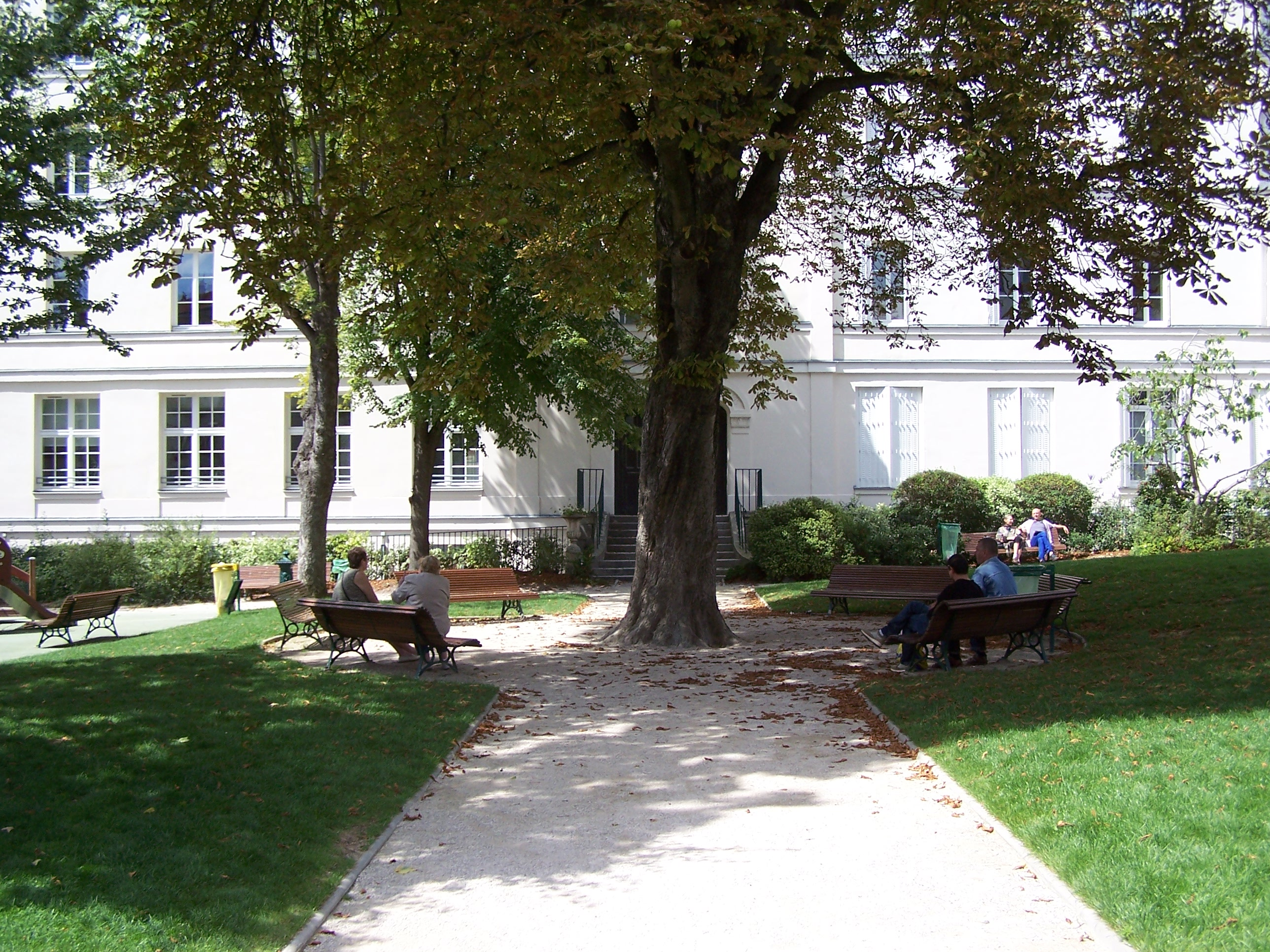 General view of the Jardin du Carré de Baudouin, at rue de Ménilmontant in Paris